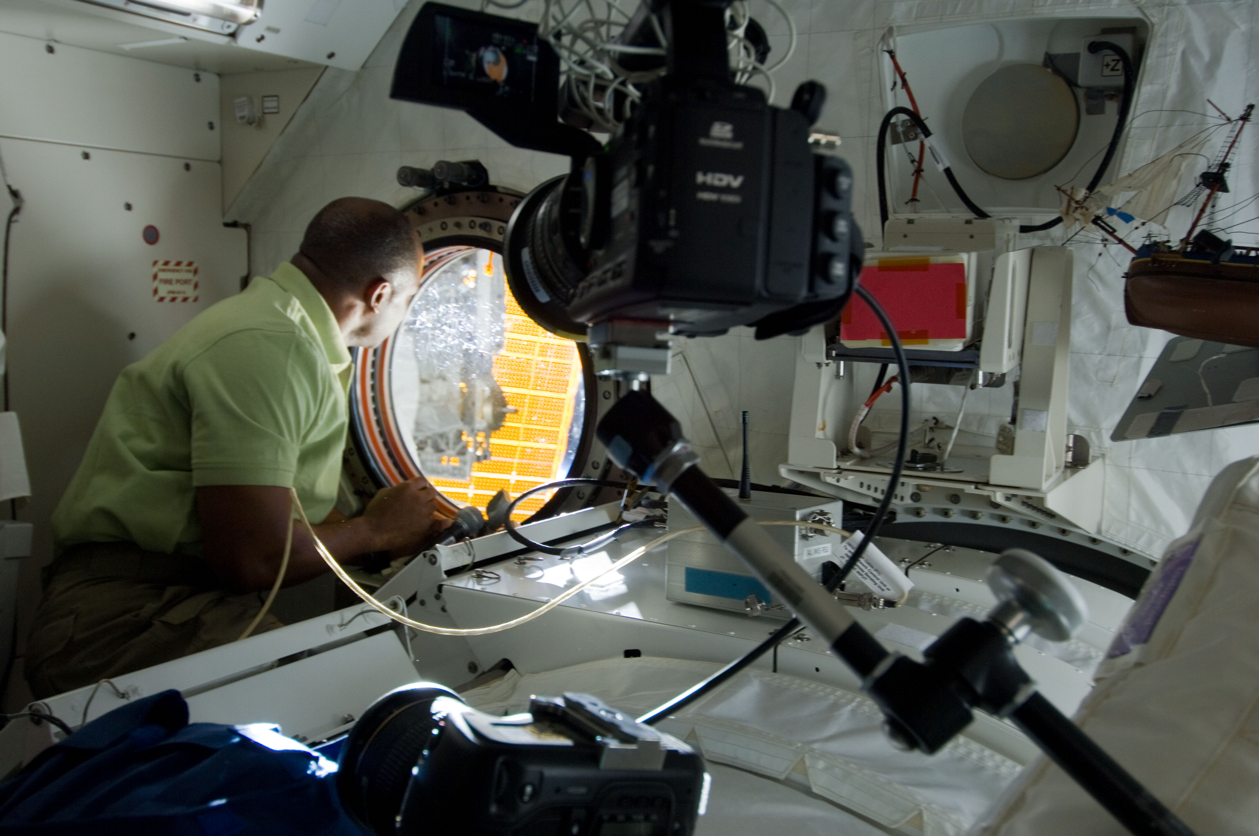 Astronaut Leland Melvin inside the ISS Japanese experiment module, looking out the window on his time off work.